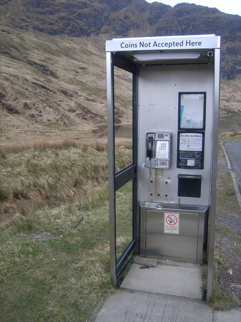 BT Logic OK - a brilliant view of Loch Restil, nestling here below Beinn Luibhean mountain. Picture the day, about 10 degrees C, lots of people and limited mobile phone reception. Ah great .... a BT phone box and open air too. Well as the notice says it doesn't take coins, but ah well, no problem we can use the 0800 REVERSE or just use a credit card ... but oh dear, no dialtone. So we have a beautiful view, phone that doesn't work and a "NO SMOKING" sign in a payphone with no door and no glass in the windows (i.e. more than two thirds of it are open to the elements) which has recently been affixed to the box by the same company who maintain it ... so this means that the "NO SMOKING" sign took precedence over the working phone. What logic!